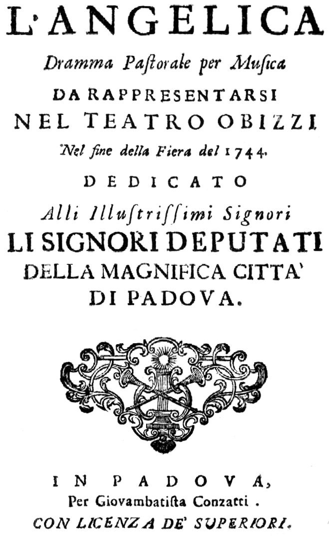 Ignazio Fiorillo - Angelica - titlepage of the libretto - Padua 1744